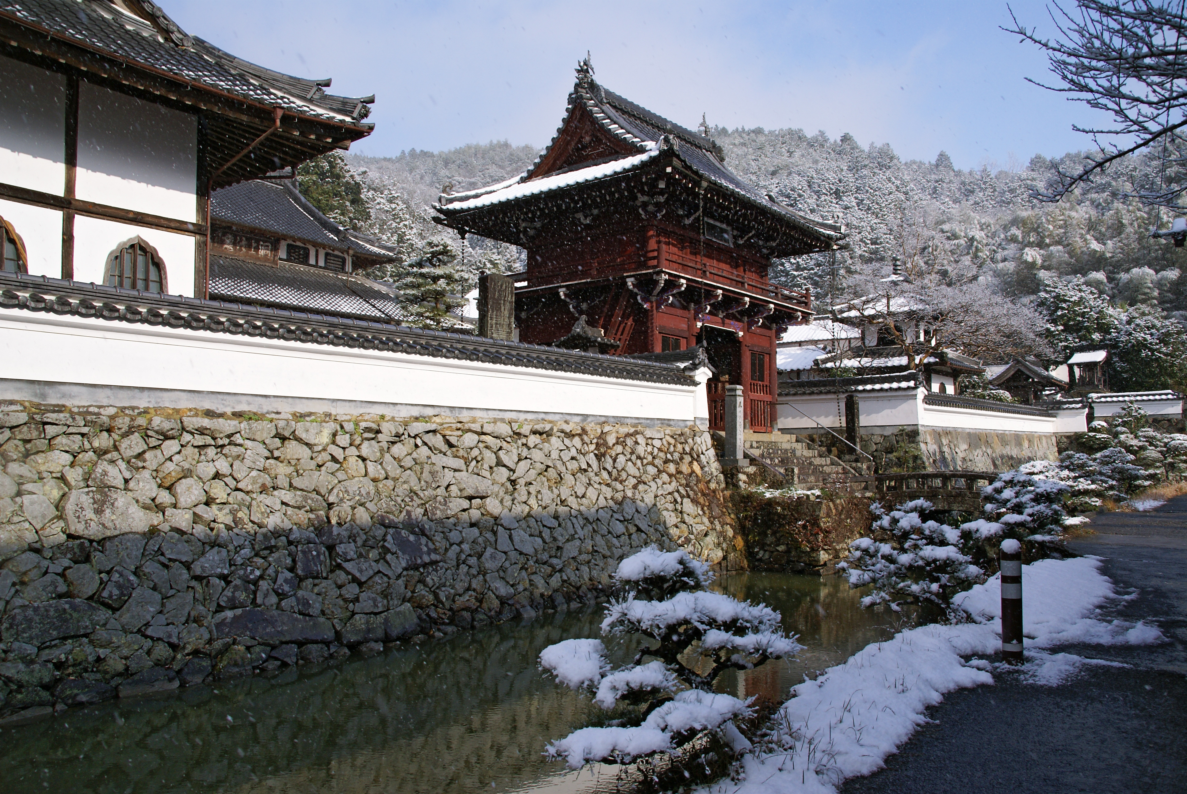 Kozenji in Tamba City, Hyogo prefecture, Japan